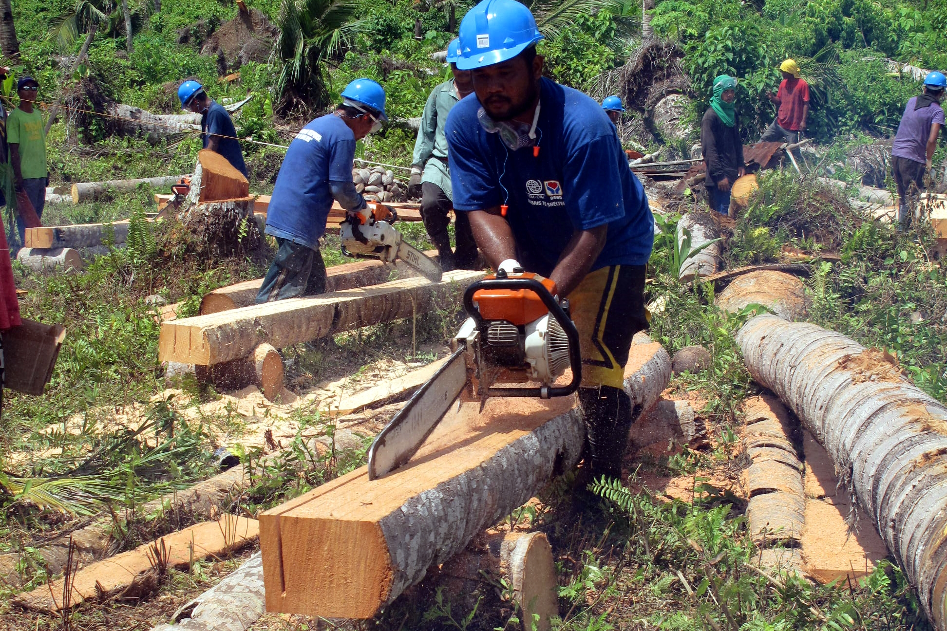 UK aid is supporting the International Organisation for Migration’s Coco Lumber project in the Philippines, which is turning the trees that were brought down by Typhoon Haiyan into timber for building new, stronger homes. IOM is also training people how to build safe shelters, and distributing shelter repair kits to those whose houses were damaged. Picture: Henry Donati/DFID